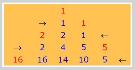 L. Seidel's algorithm for computing the Euler numbers.